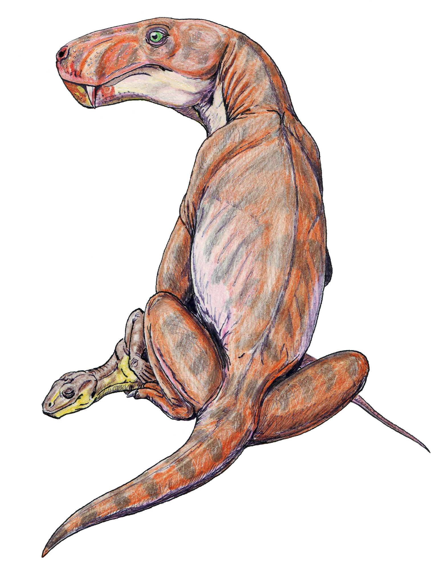 Viatkogorgon with Suminia as prey